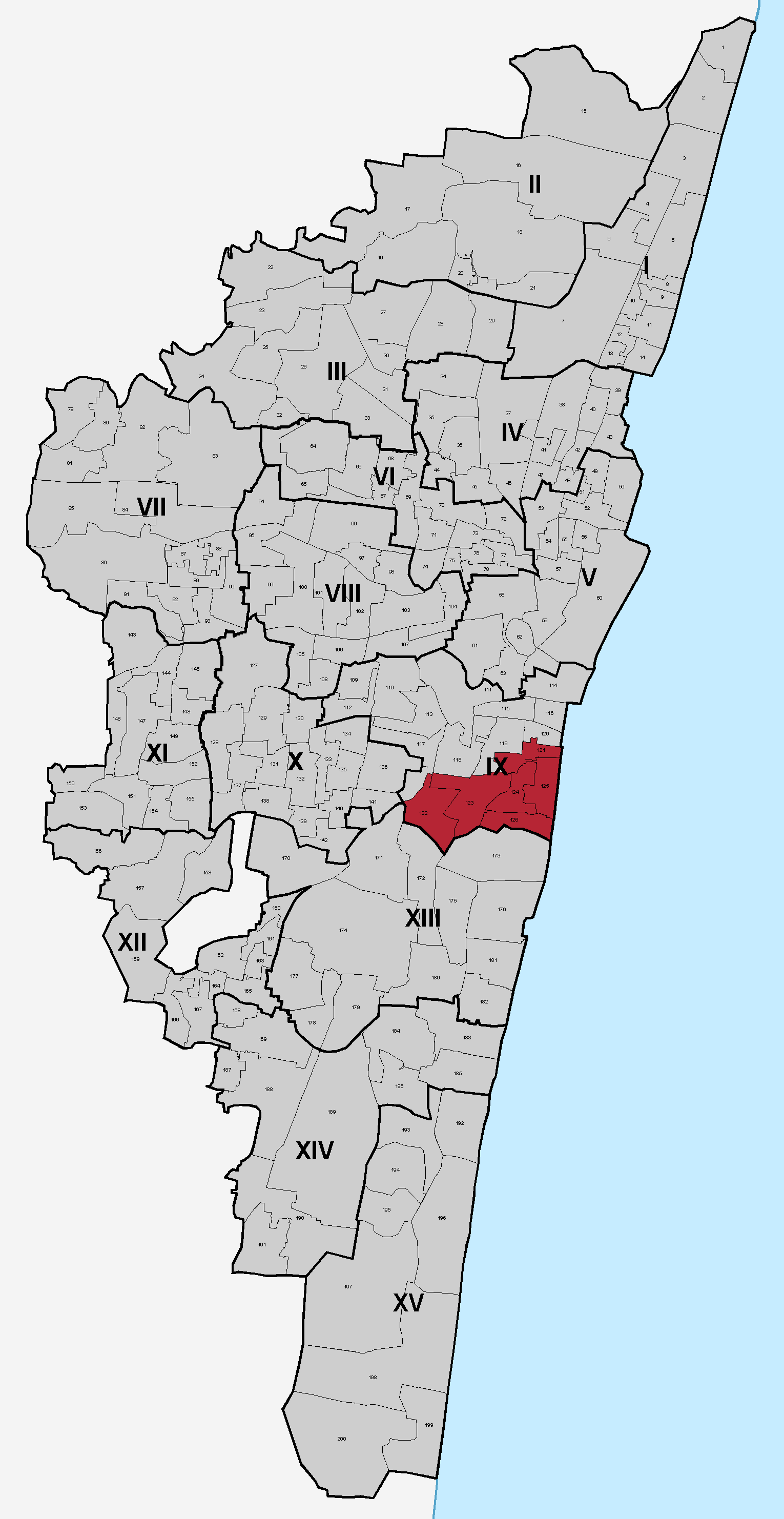 Location of Mylapore assembly constituency (wards no. 121-126) in Chennai